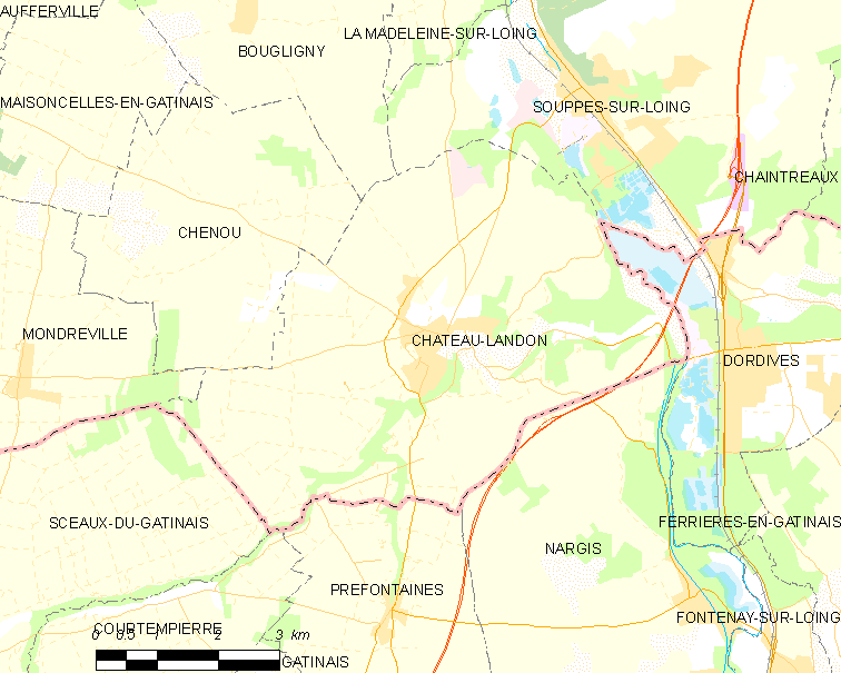 Map of French municipality Château-Landon